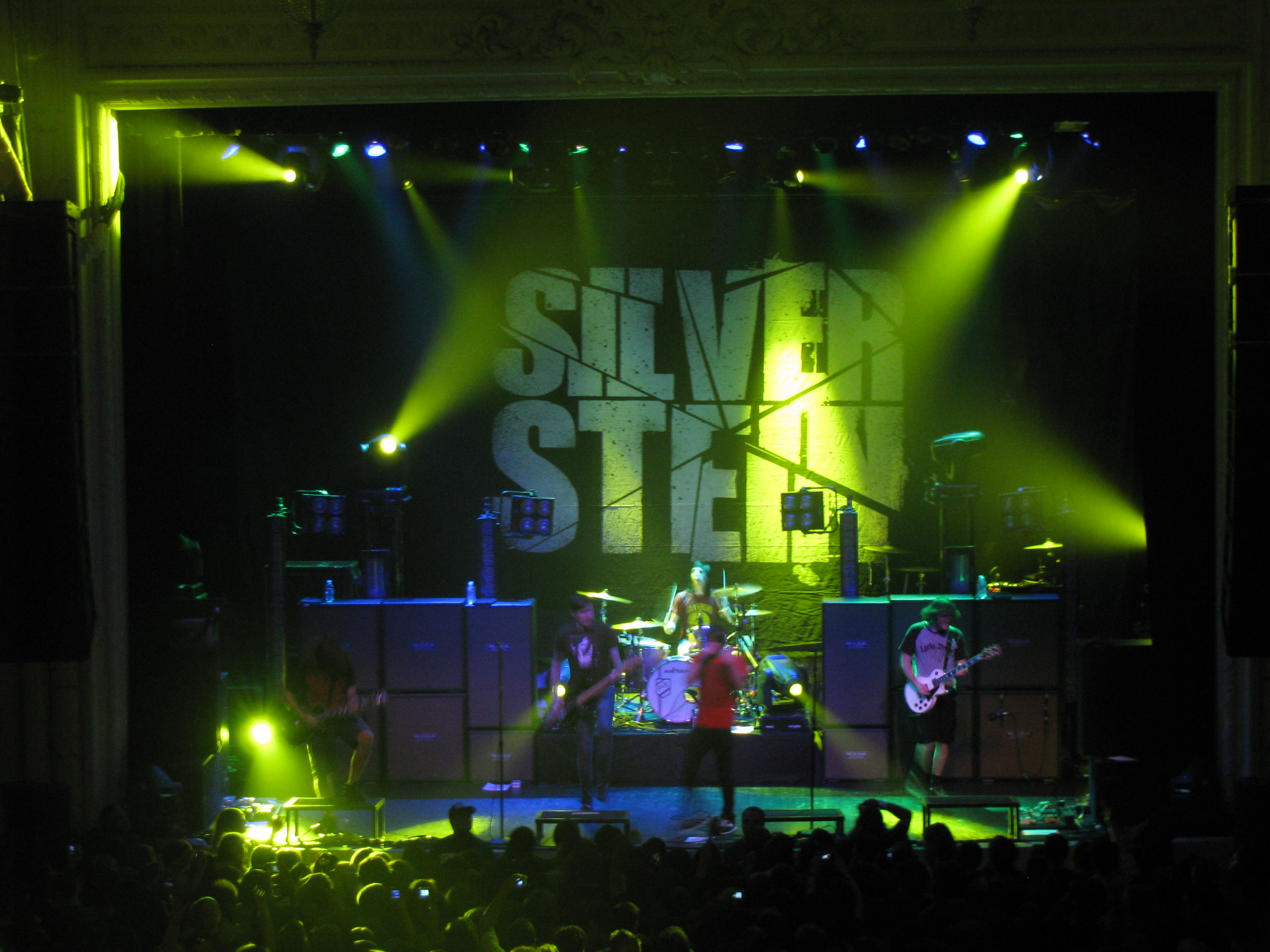 Silverstein plays The Grand in San Francisco